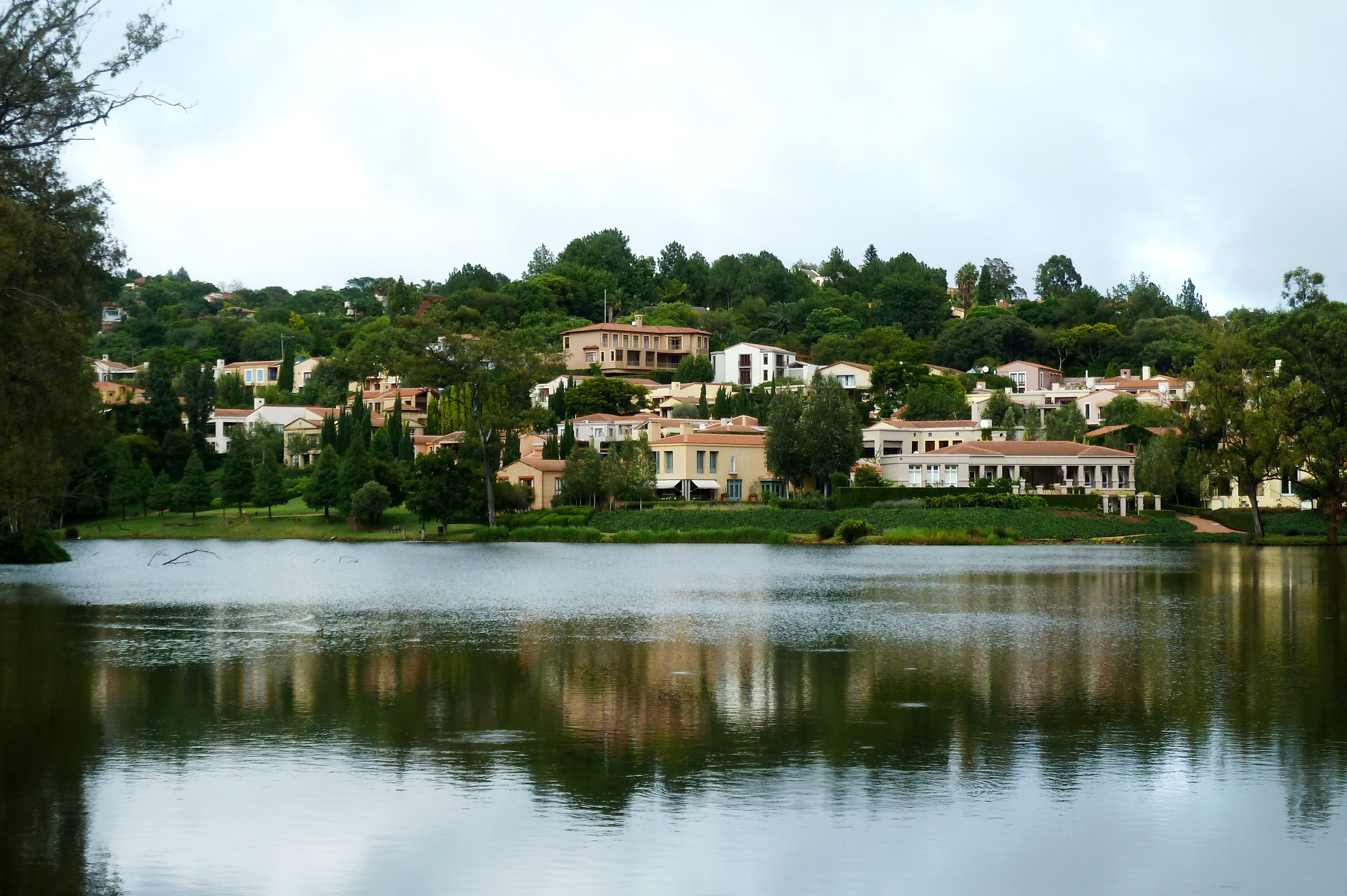 Looking out over a dam at the Pretoria Country Club towards Waterkloof Village in Waterkloof, Pretoria